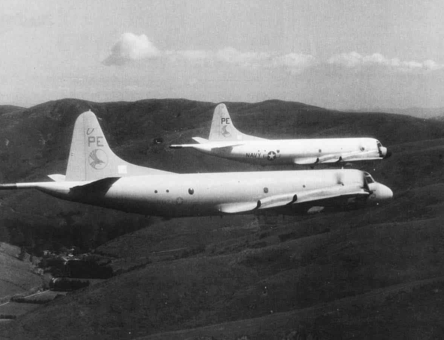 Two U.S. Navy Lockheed P-3C Orion of Patrol Squadron 19 (VP-19) "Big Red" in flight over California (USA). VP-19 was based at Naval Air Station Moffett Field, California, and was deployed to Saudi Arabia during the 1991 Gulf War. Following the return of the squadron to the U.S., it was disestablished on 31 August 1991.